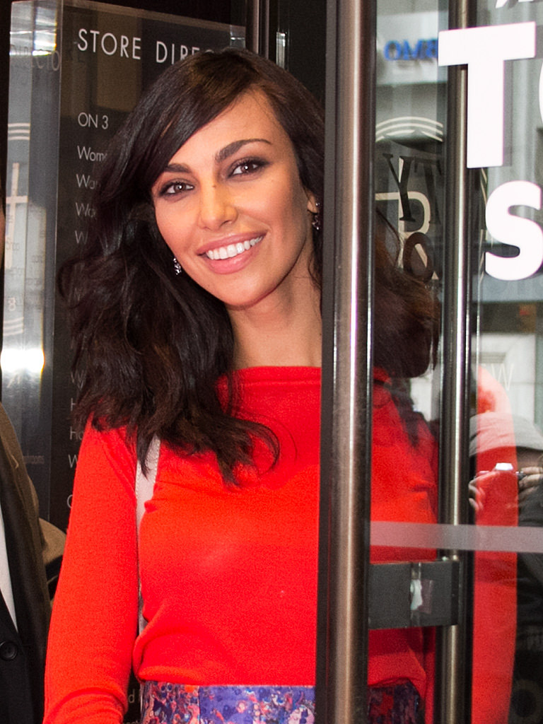 Mădălina Diana Ghenea at the Toronto International Film Festival 2015